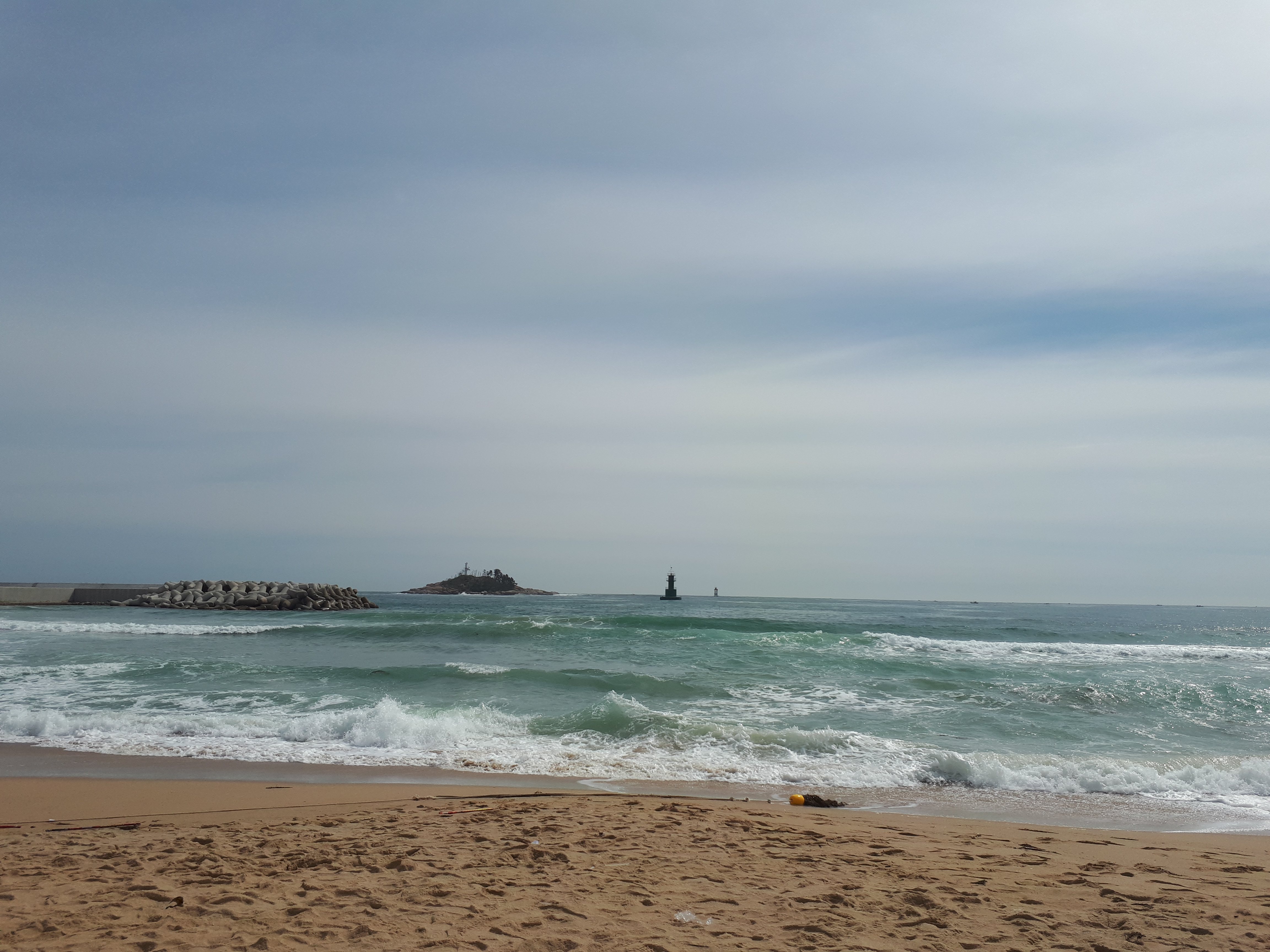 Sokcho Beach